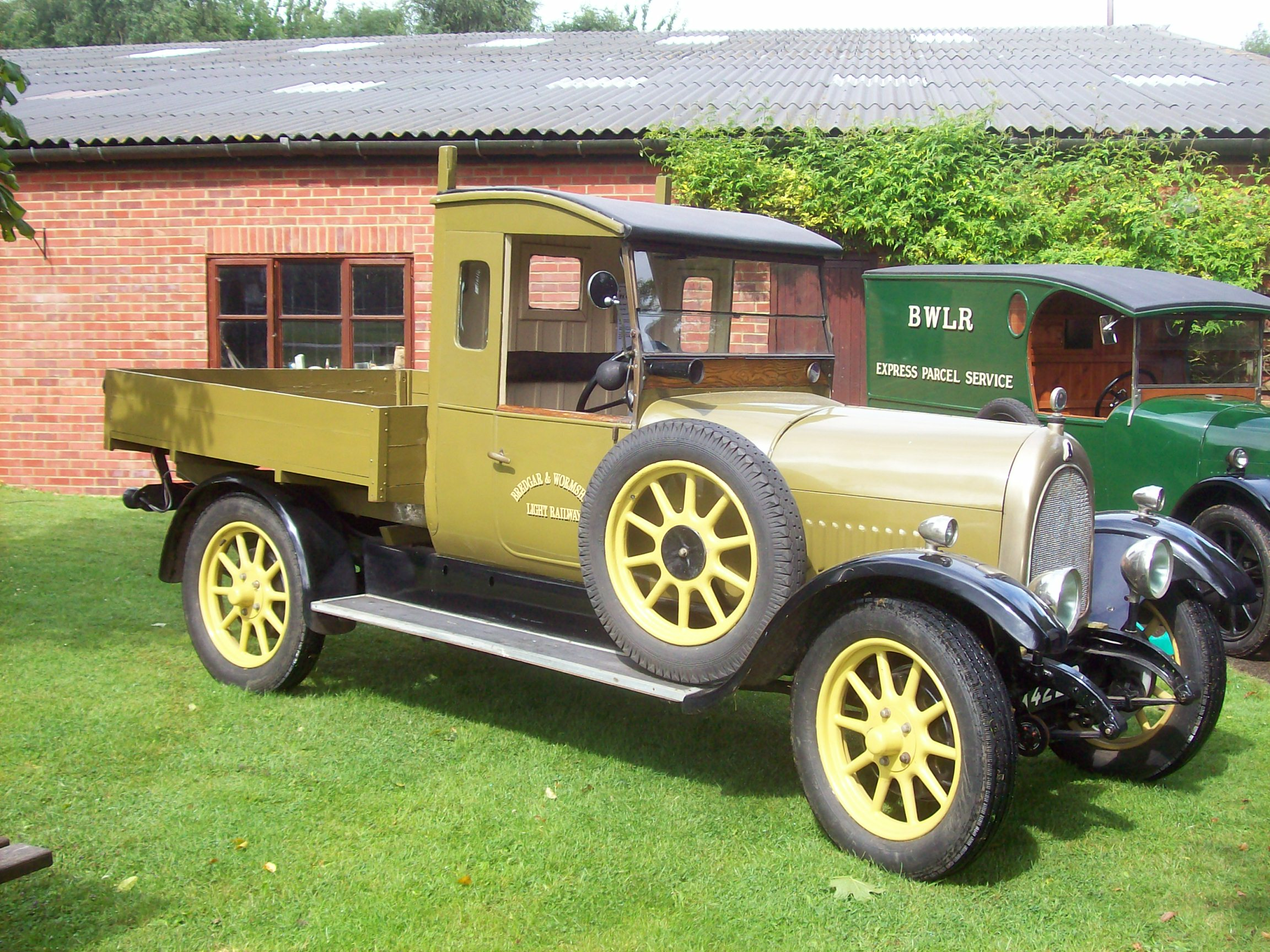 1926 Bean pick-up truck at the Bredgar and Wormshill Light Railway